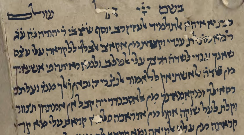 A manuscript of Maimonides "Moreh Nevuchim" (Hebrew: Guide of the Perplexed), from Yemen, dated 13-14th century